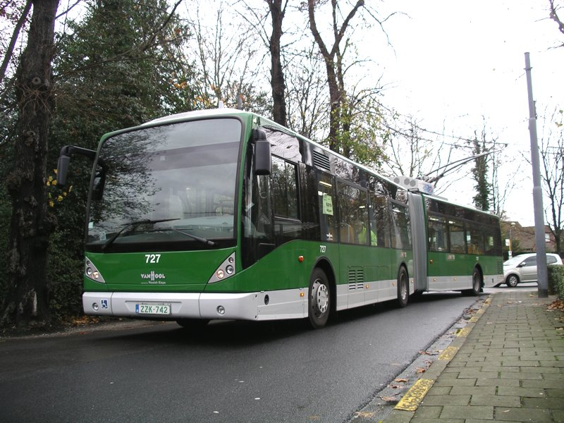 Milan Van Hool AG300T during tests in Ghent